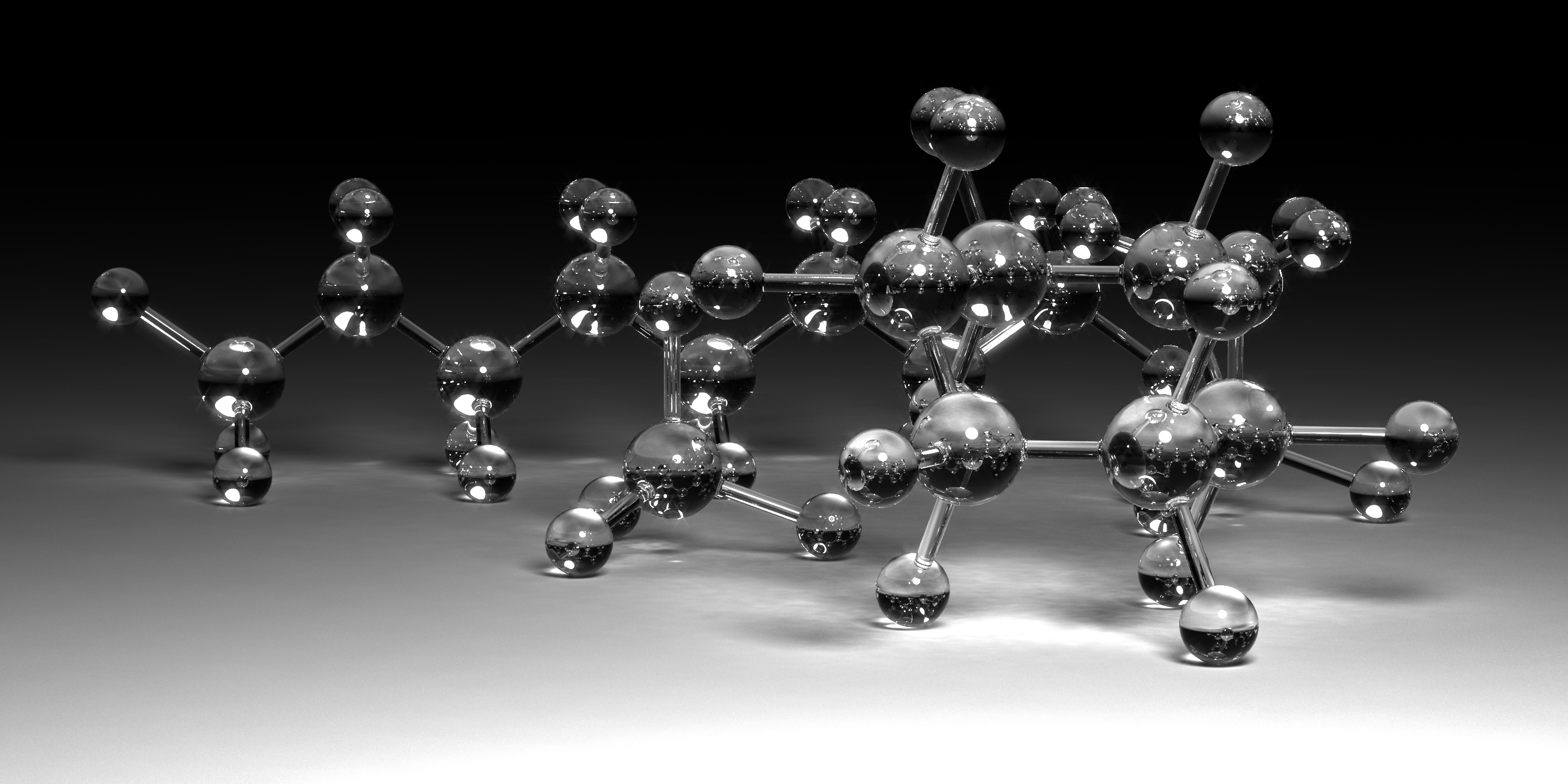 A 3D model of organic molecules created using Rhinoceros 3D and rendered with Vray. The molecules are, from foreground to background: cyclohexane, methane, ethane, and heptane. The ray-tracing depth was set to 9, and caustics are enabled. The index of refraction of the glass material is set to 1.55. A small amount of lens flare around highlights was added with Photoshop.